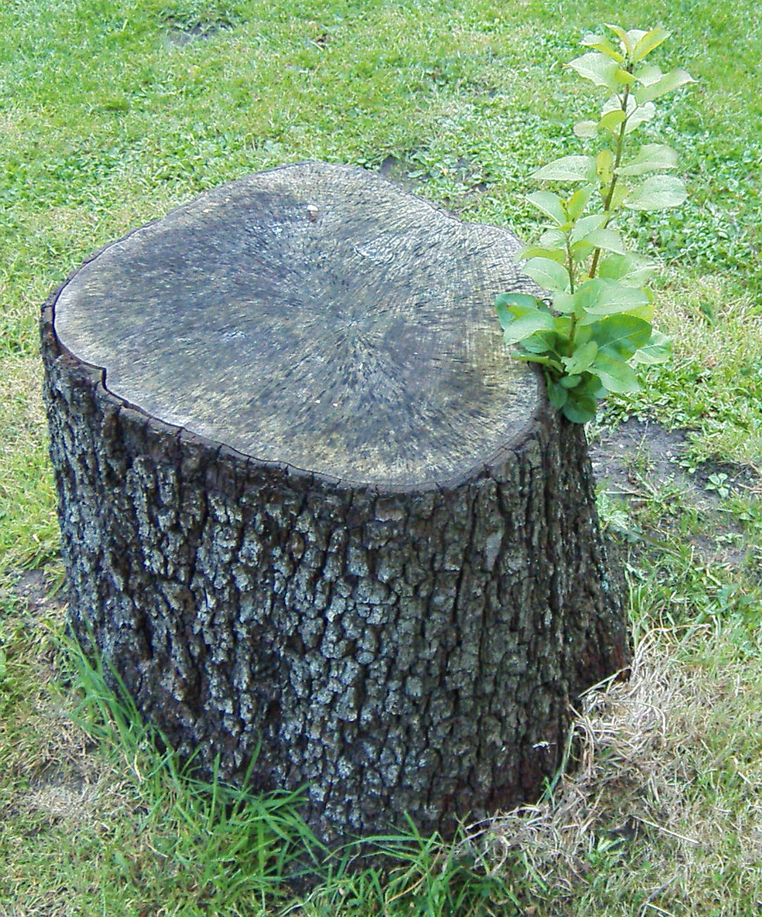 A tree that never gives up.